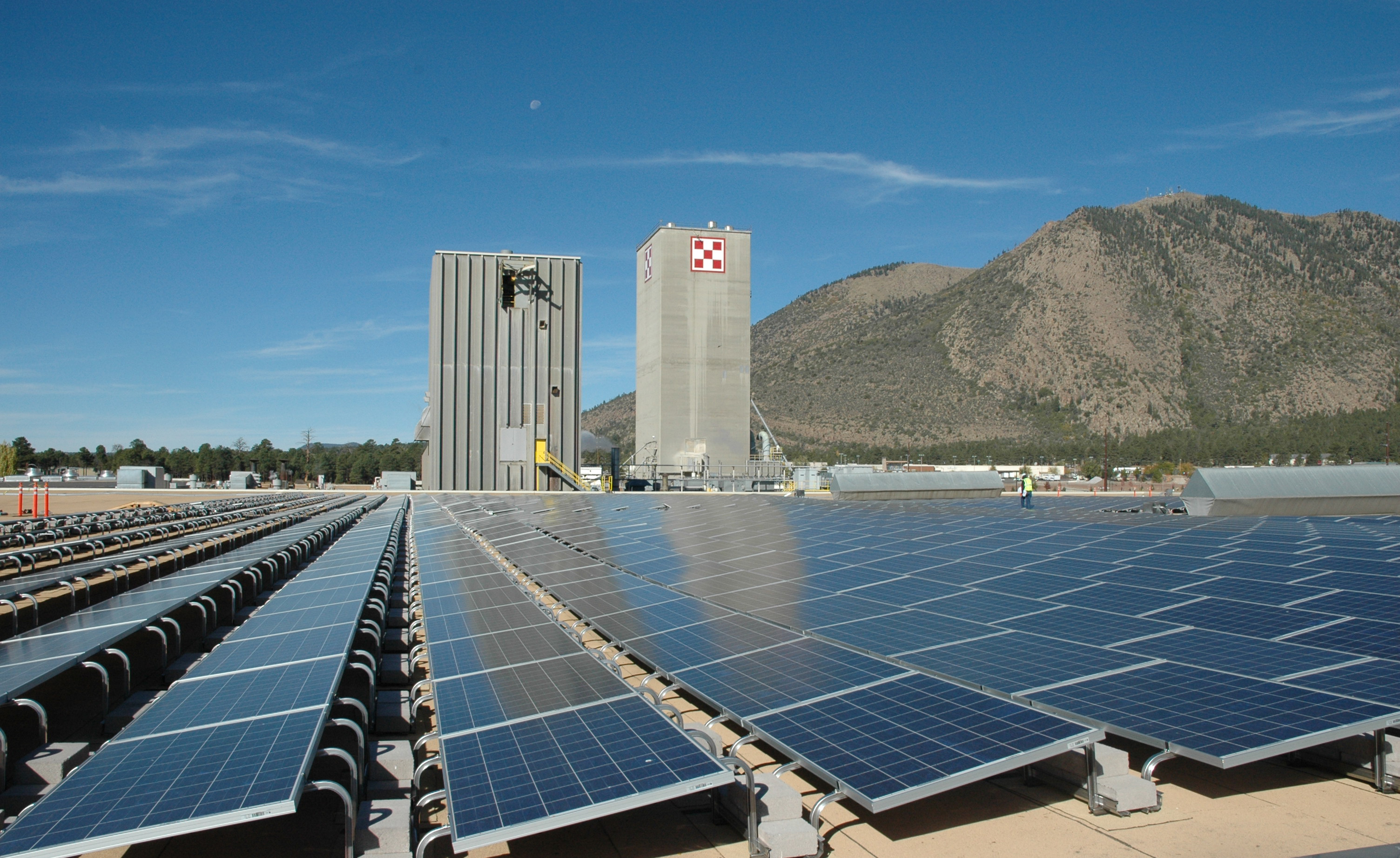 Private solar farm in Flagstaff, Arizona; operated at Nestle Purina's manufacturing facilities.